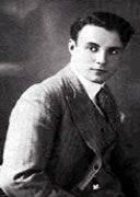 Dutch-German actor Johannes Heesters (5 December 1903) as a young man (photographh taken by Bavarian grand-uncle), no copyright\expired after 90+ years.